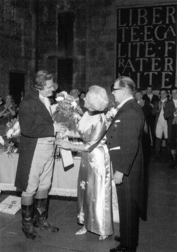 Festivity of the 35th career year of Tauno Palo. The event was held together with the theatre act Dantonin kuolema (Death of Danton). Ansa Ikonen and Jalmari Rinne are congratulating Palo.